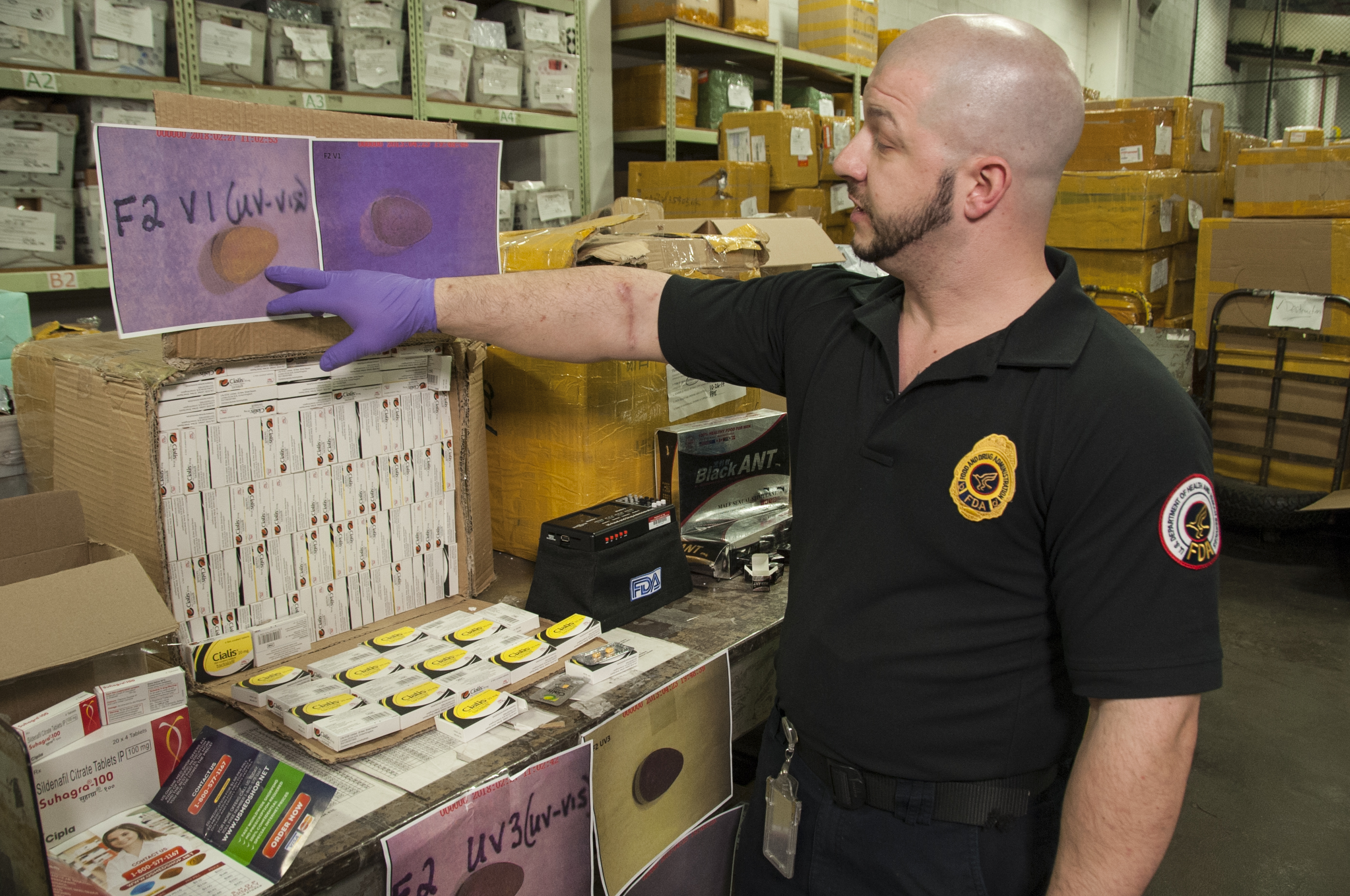 Single mail parcel containing appx. 3,200-4,000 tablets of suspected counterfeit Cialis after being screened using the CD3 Counterfeit Detector. The investigation process takes time, with an experienced FDA investigator processing a package containing a single product in about 20 minutes. This time can increase if a large package contains multiple products, or if the product is labeled in a language other than English. This estimate only includes work conducted by the FDA investigator in the IMF and does not include the amount of time required to detain the suspect package and work through the detention and hearing process leading to a final admissibility determination.